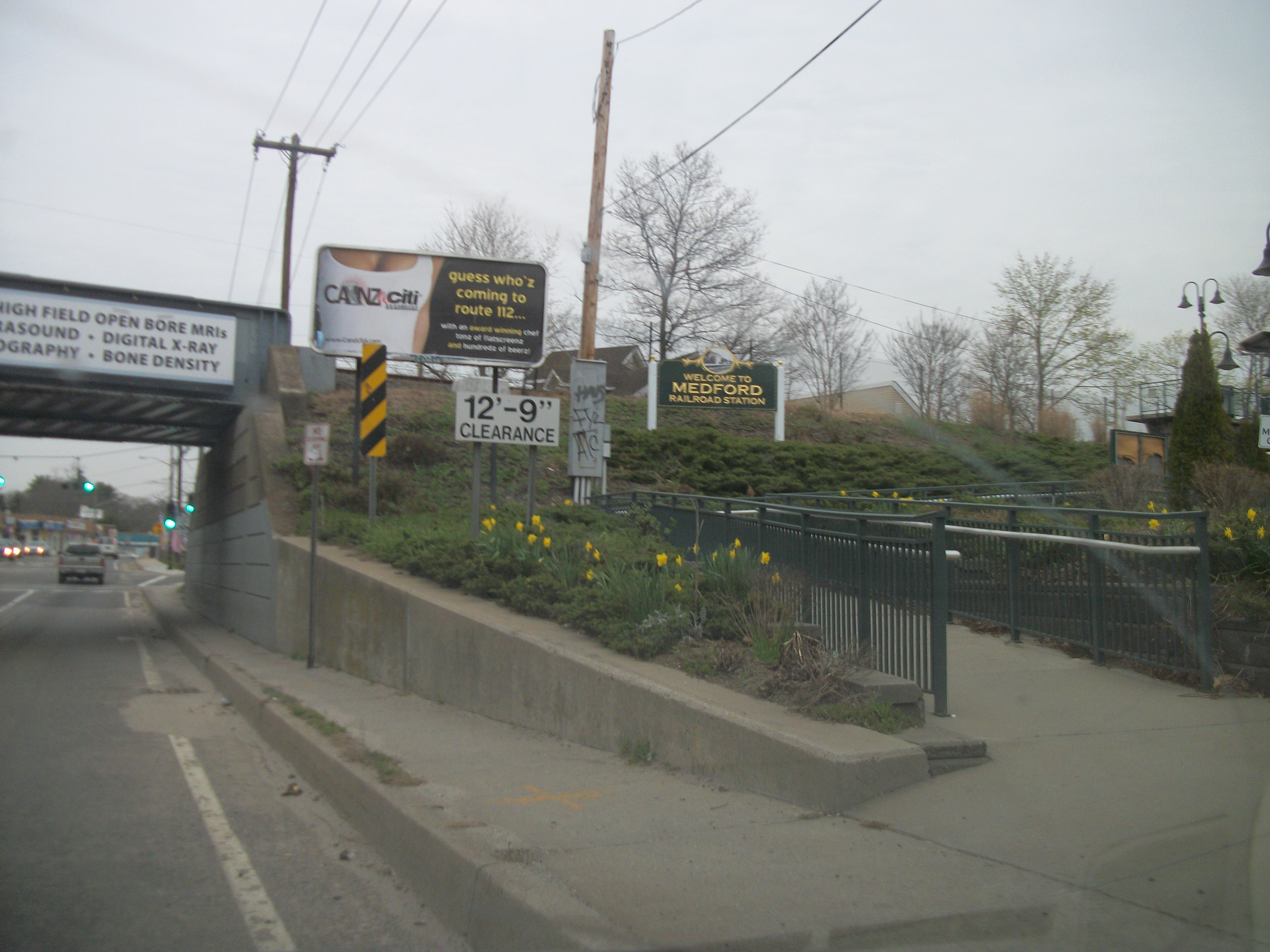 Northbound New York State Route 112 as it crosses under the Main Line of the Long Island Rail Road near Medford Railroad Station in Medford, New York. The sign is fairly recent, but like the one it replaced, it shows that the clearence of the bridge is a mere 12 feet, 9 inches, which is way too low for many trailers.